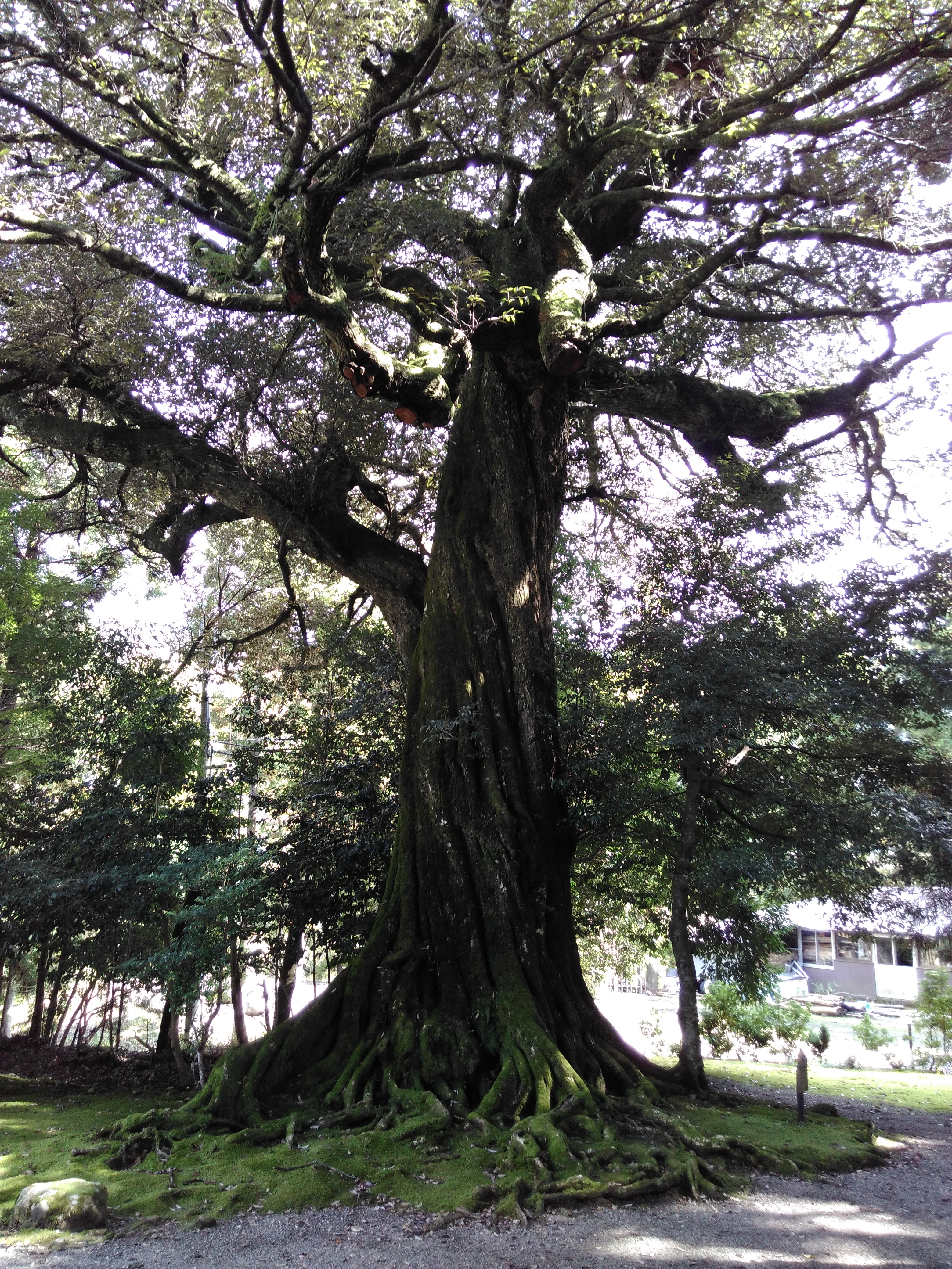 Old tree on the grounds of Wakasa Jingu-ji.